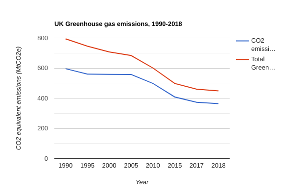 UK CO2 emissions 1990-2018